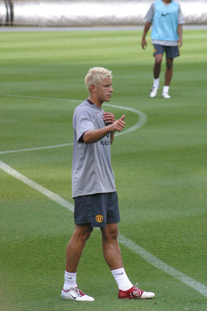 Manchester United footballer Alan Smith in training before friendly match vs Celtic.Lincoln Financial Field, Philadelphia